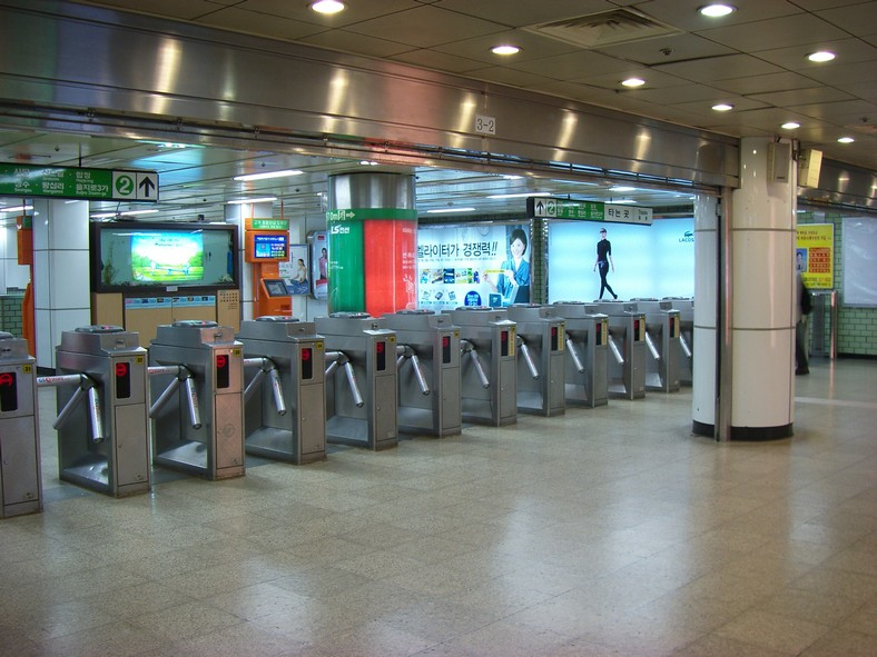 Samseong Station